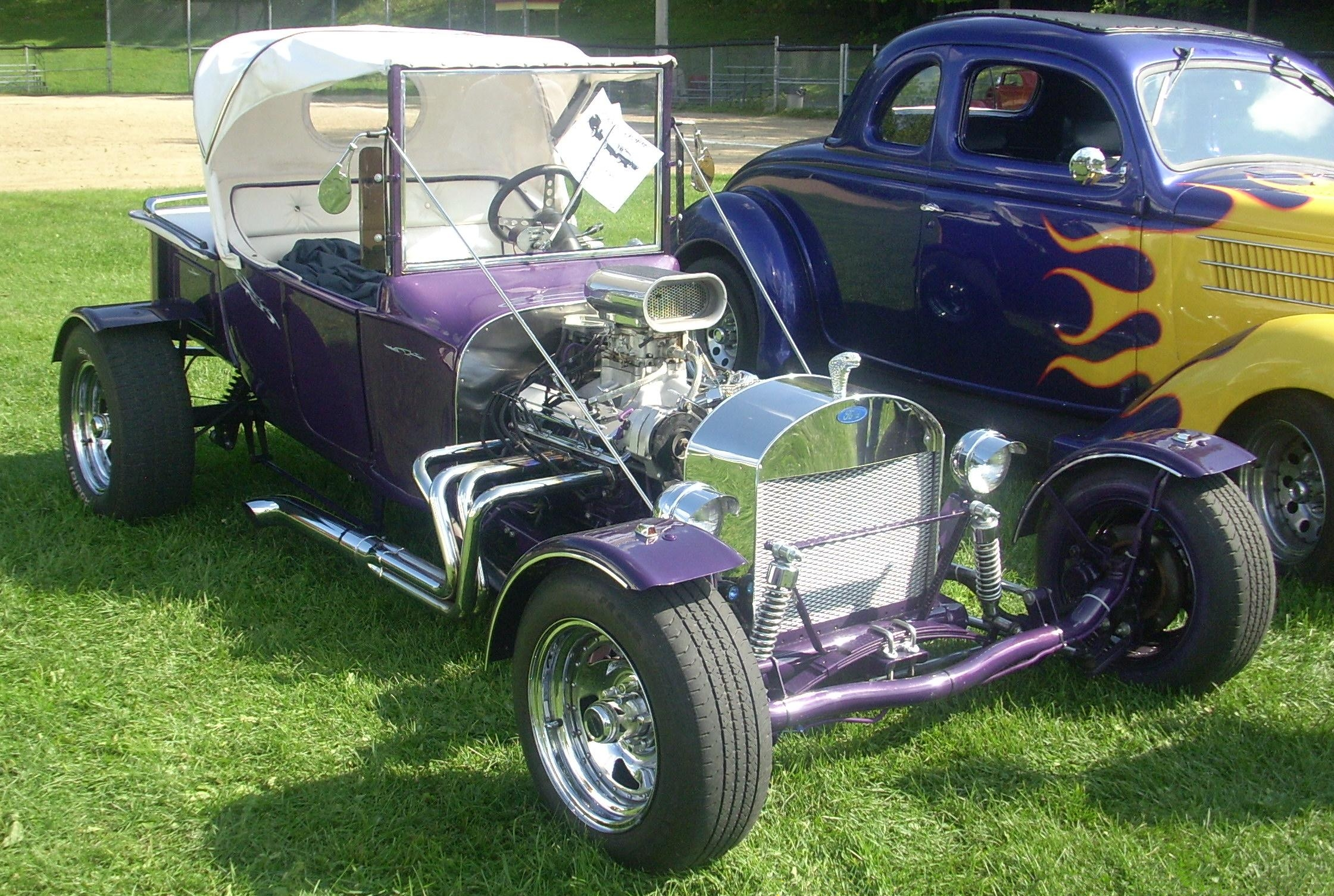 1927 Ford Model T photographed at the Rassemblement Rigaud Car Show.